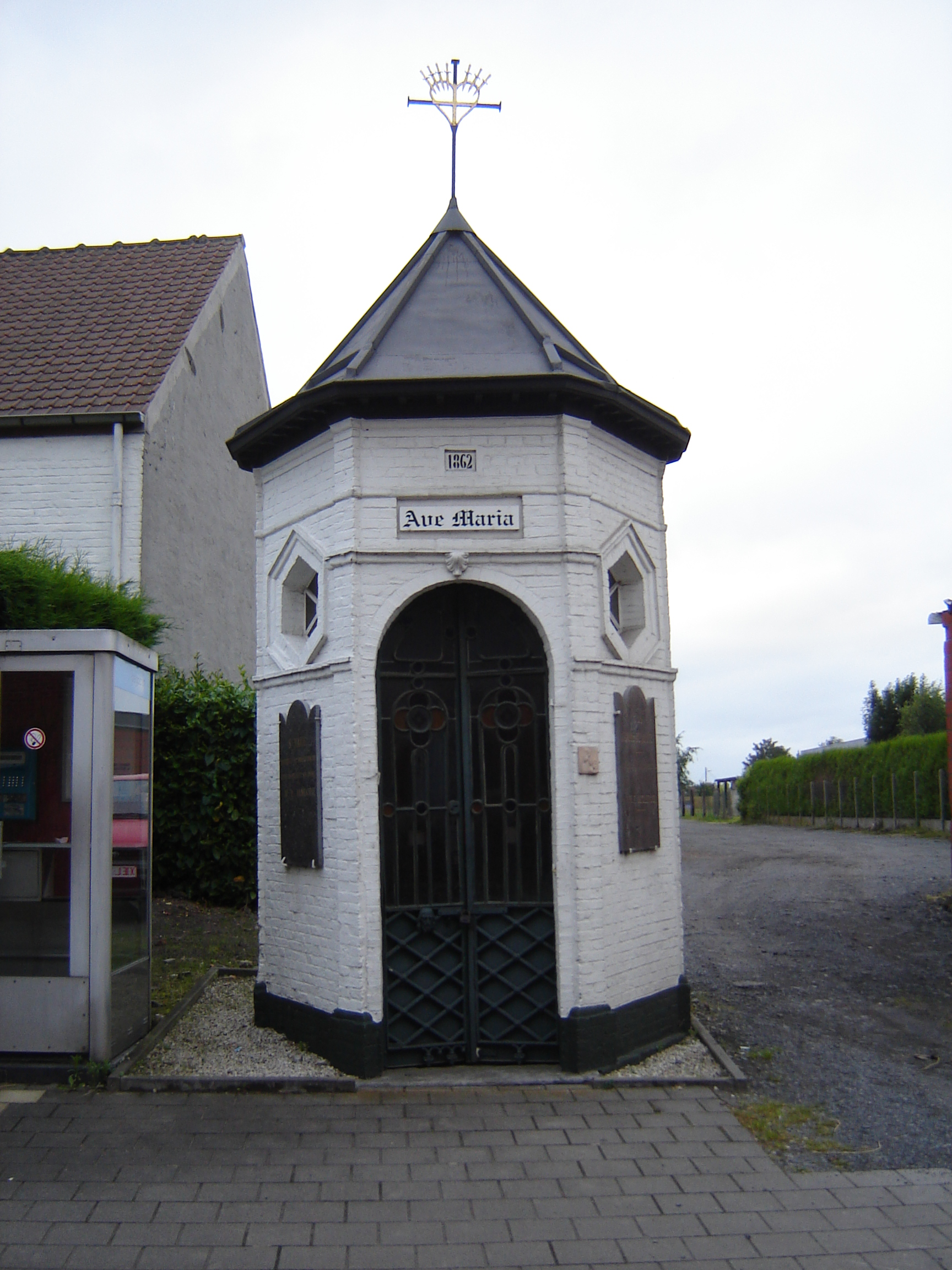 Chapel of "Ave Maria" in Rekkem. Chapel from 1862. Rekkem, Menen, West Flanders, Belgium.